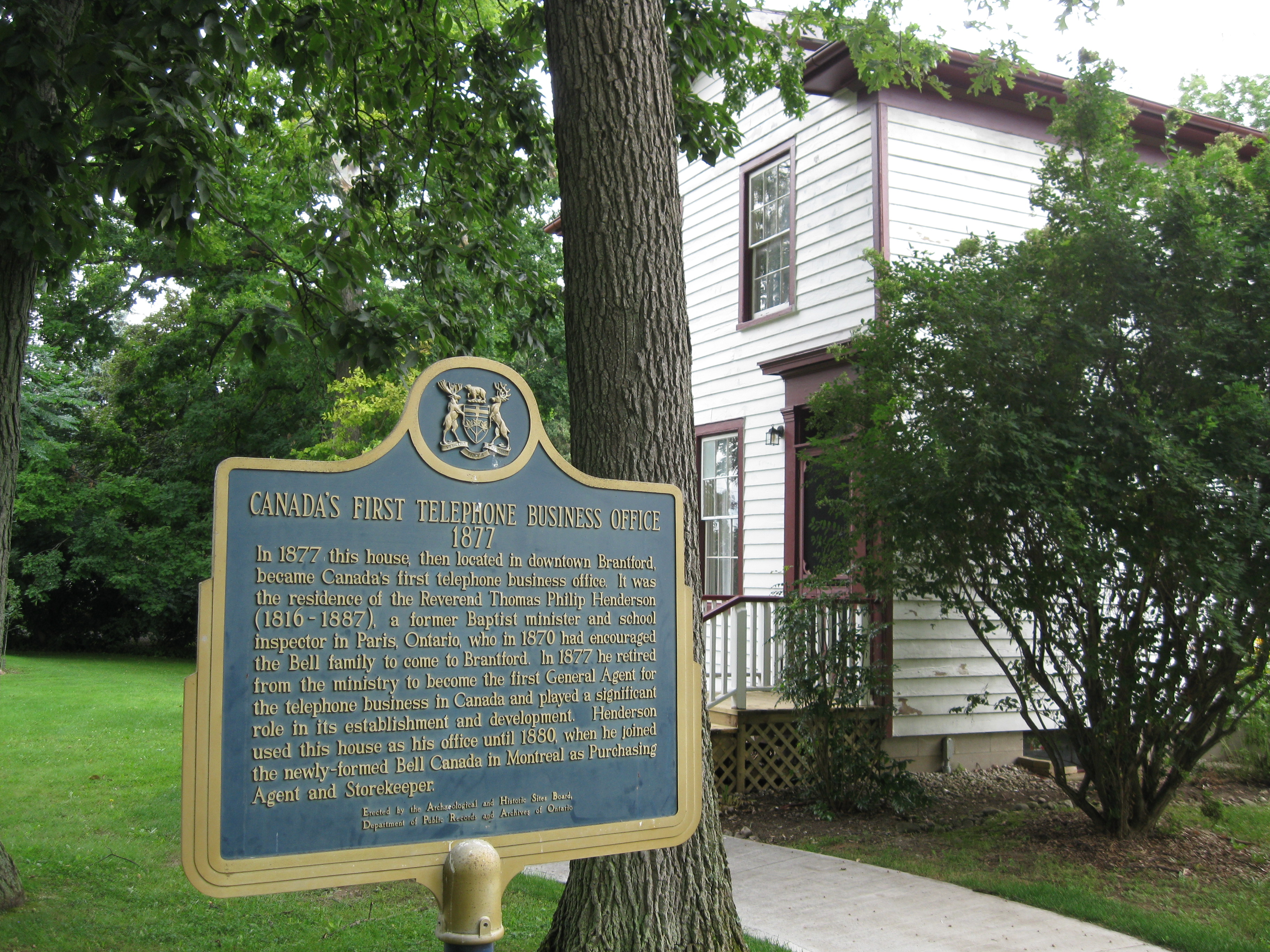 Plaque commemorating Canada's first telephone company office, a forerunner to the Bell Telephone Company of Canada, established in Brantford, Ontario, 1877. The white clapboard Henderson Home, which was Rev. Henderson's private home and which also became the telephone company office, is seen in the background. It was later moved from downtown Brantford to the site of the Bell Homestead museum in the Tuttelo Heights suburb of Brantford, and was converted into a telephone museum.